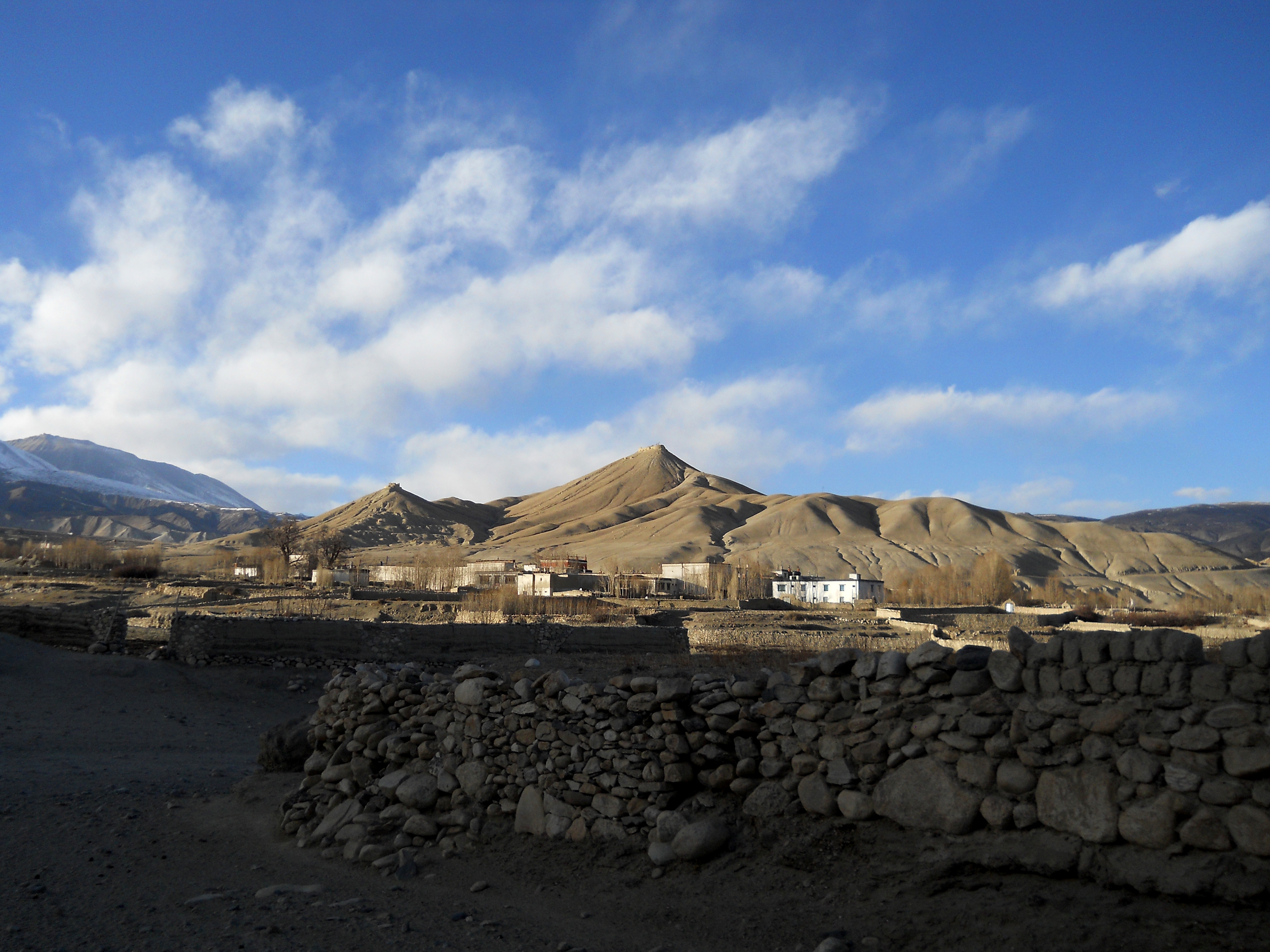 place